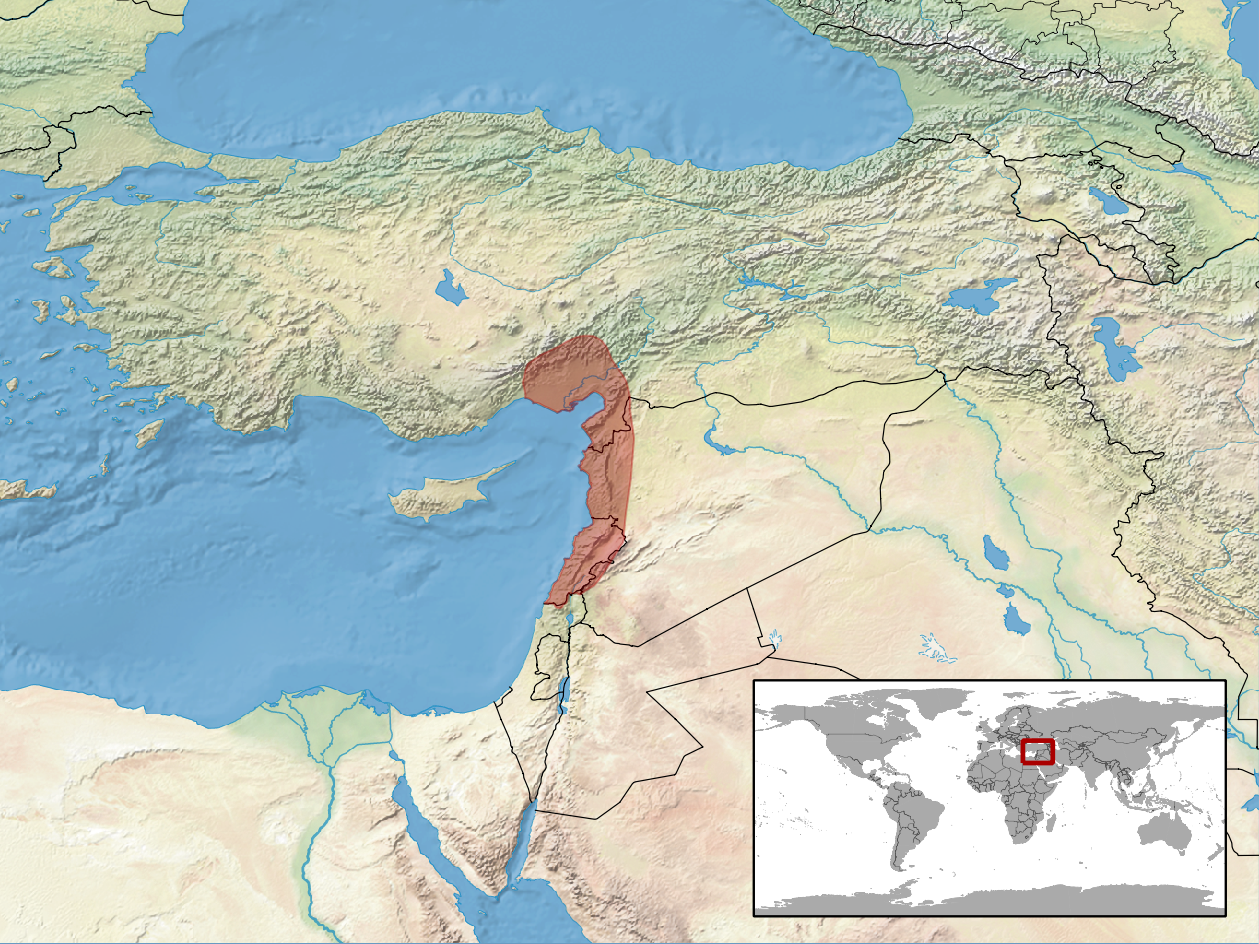 geographic distribution of Eirenis levantinus (Native: Israel; Lebanon; Syrian Arab Republic; Turkey)